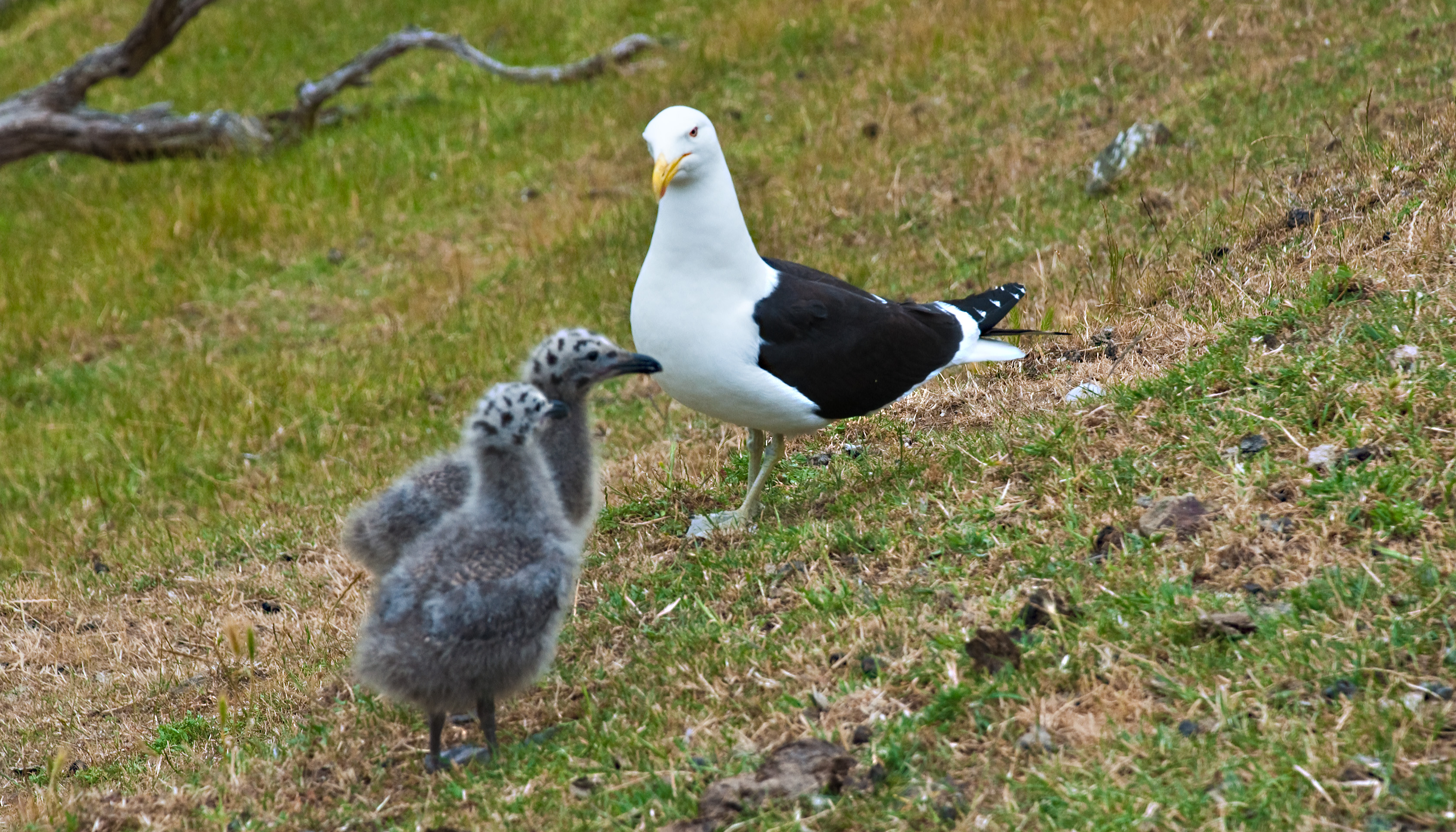 A Kelp Gull (also known as Southern Black-backed Gull) adult and two chicks on Matiu/Somes Island, Wellington, New Zealand.